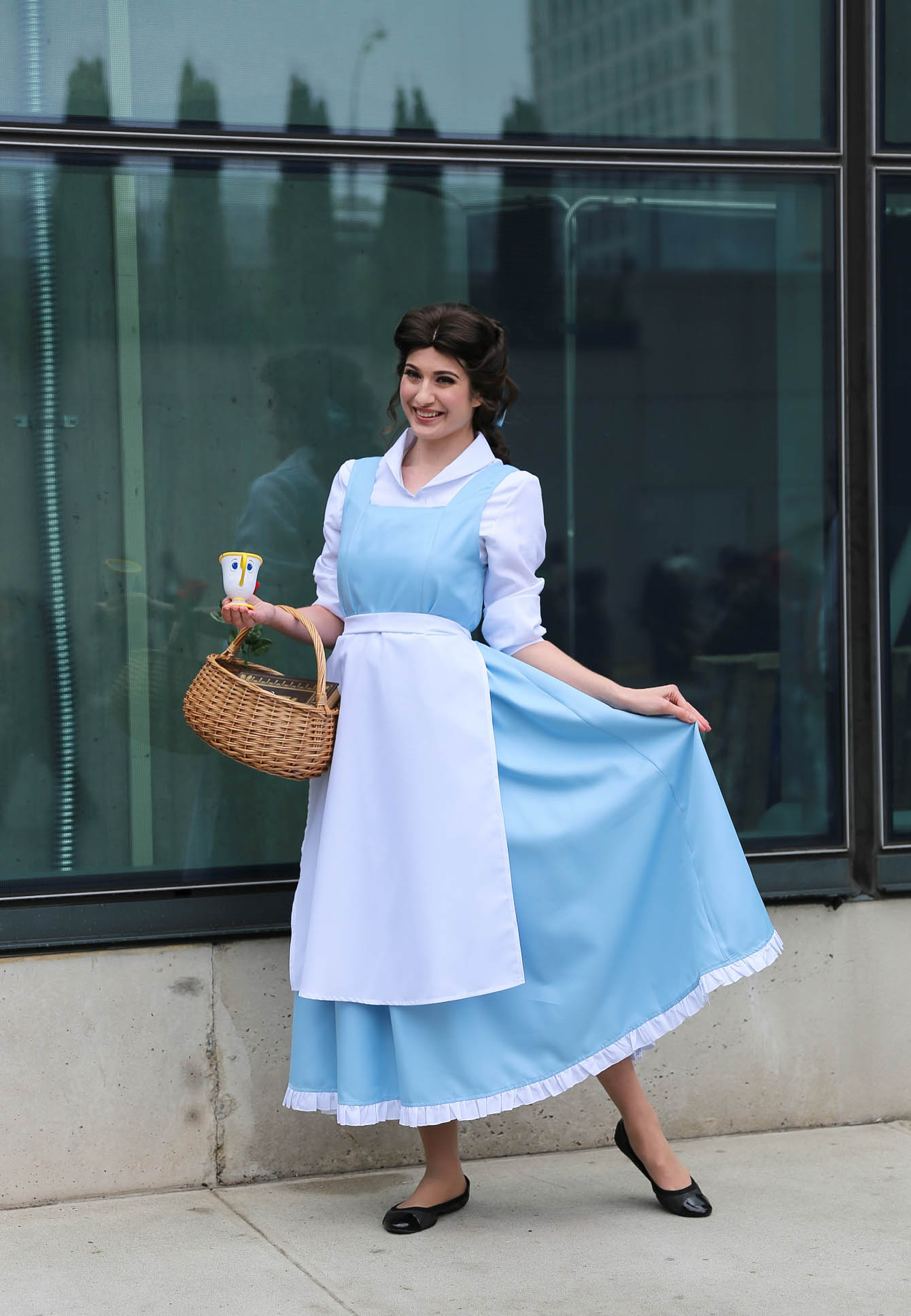 Cosplay at the 2016 New York Comic Con.